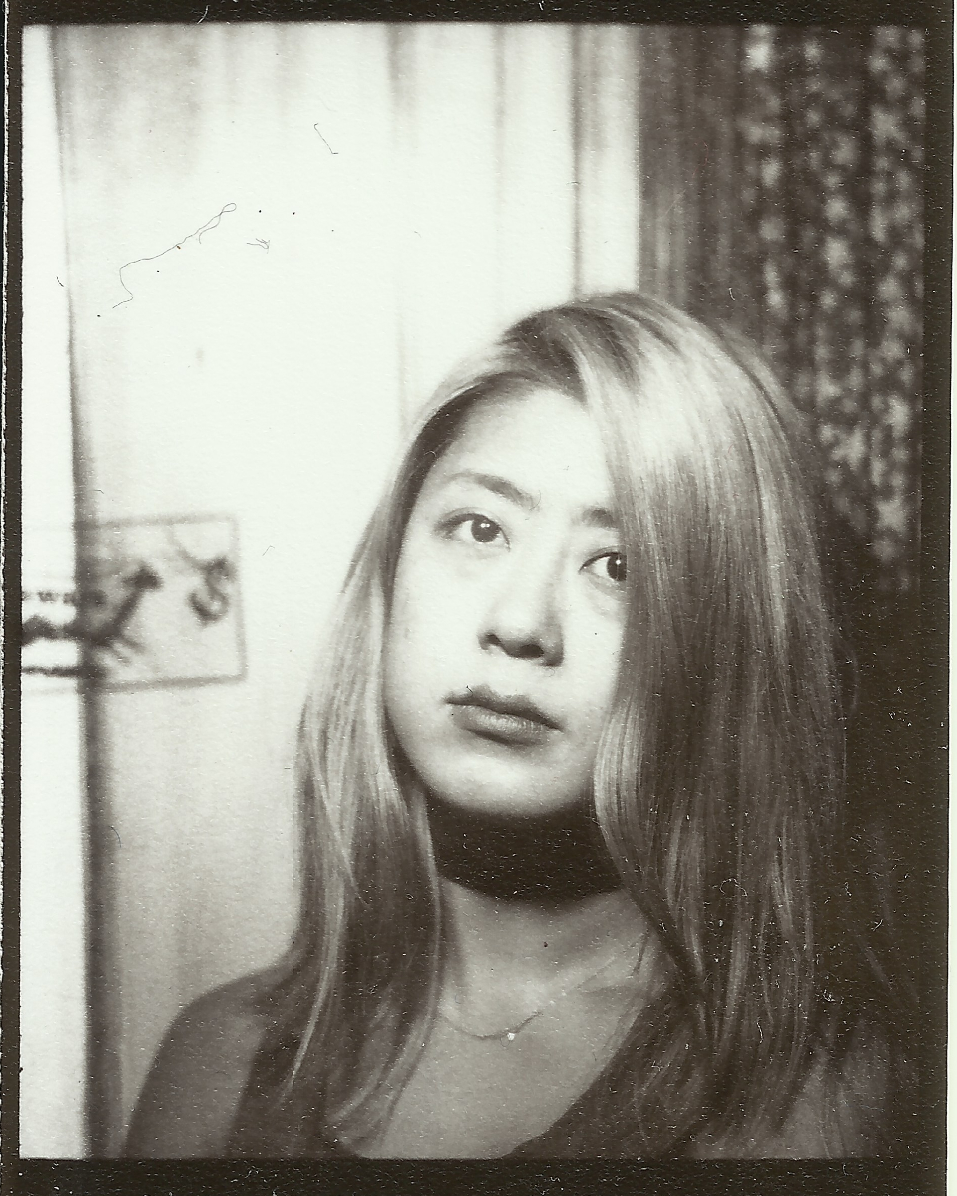 Jenny Zhang Author Photo